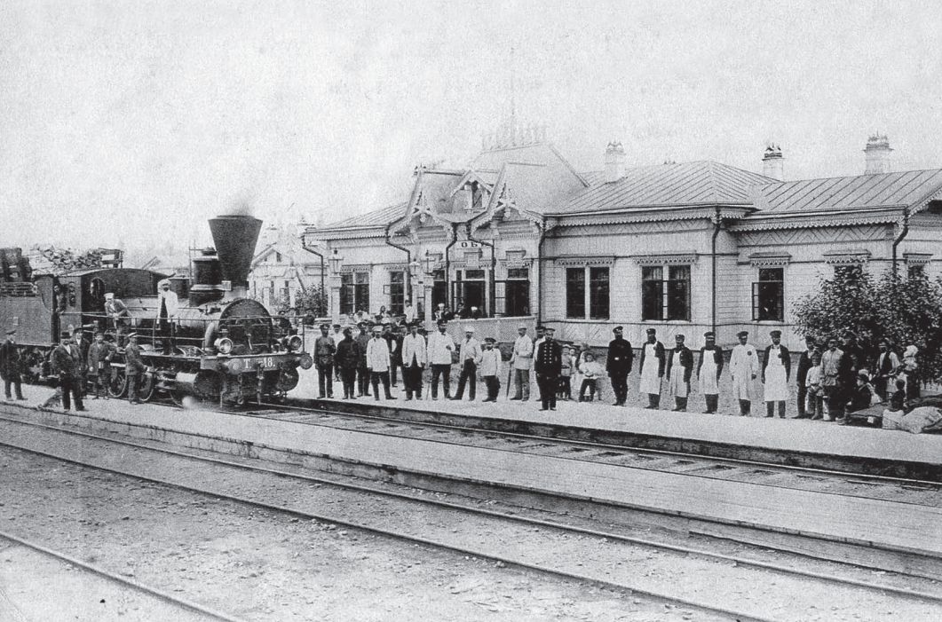 Ob Railway Station (current Novosibirsk-Glavny) in 1896.